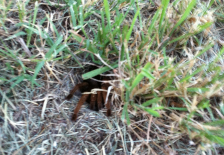 Tarantula at the mouth of its burrow. Taken in July in Dallas County Texas.